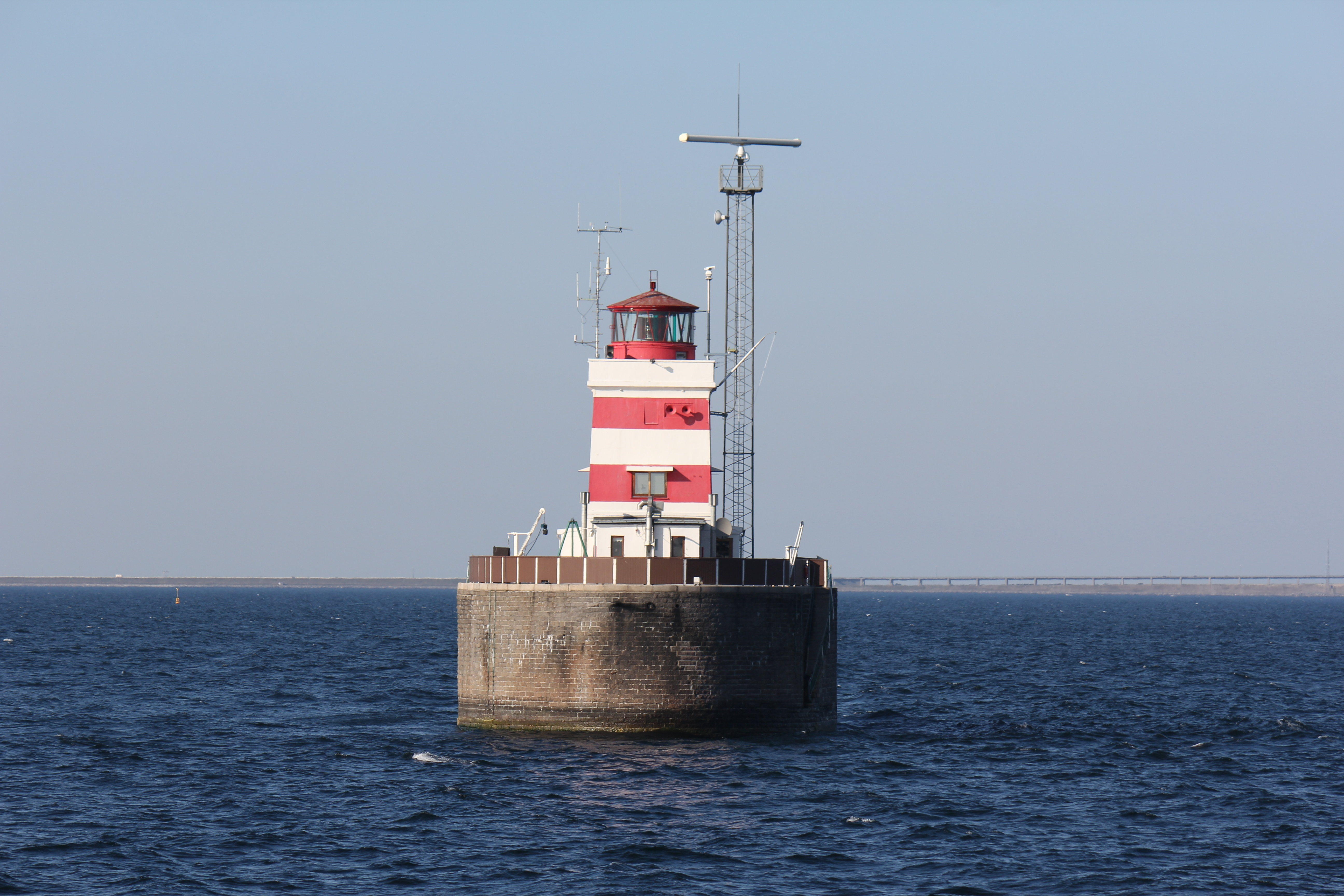 Drogden Lighthouse in the southern part of the Drogden-Sund in the Øresund south east of København.